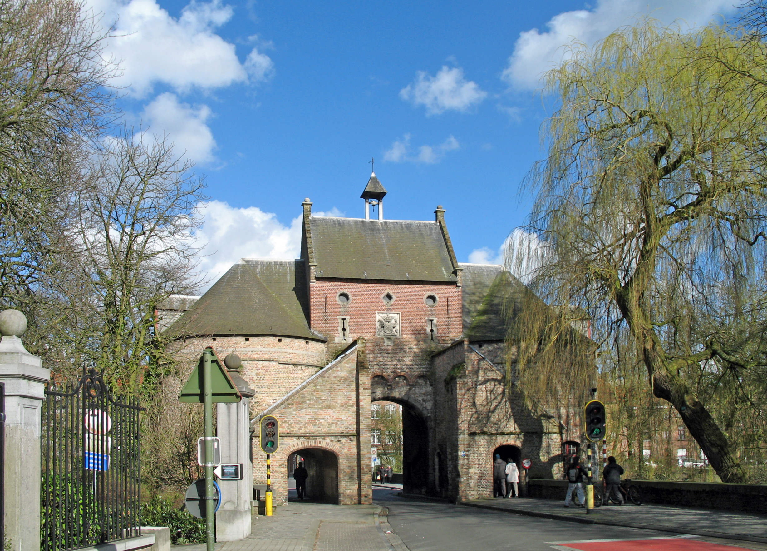 Bruges, Belgium: the Smedenpoort (Blacksmith's Gate). Seen from outside the city.